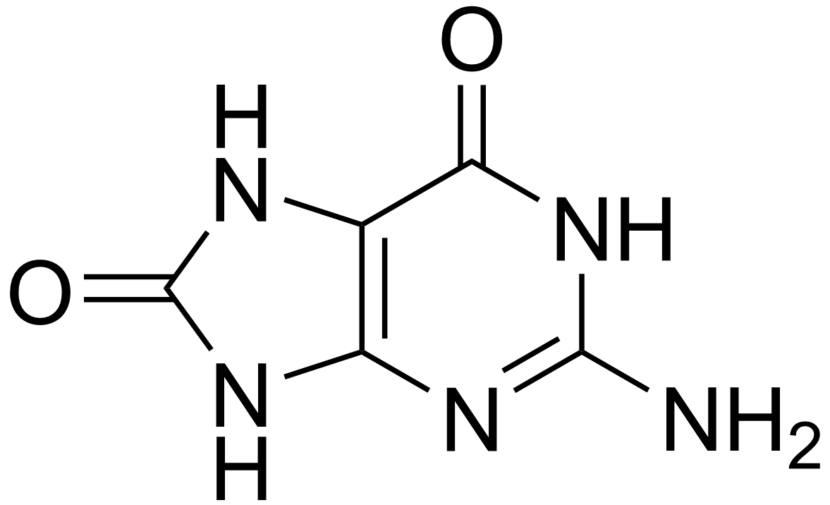 Structural formula of the chemical compound 8-oxoguanine